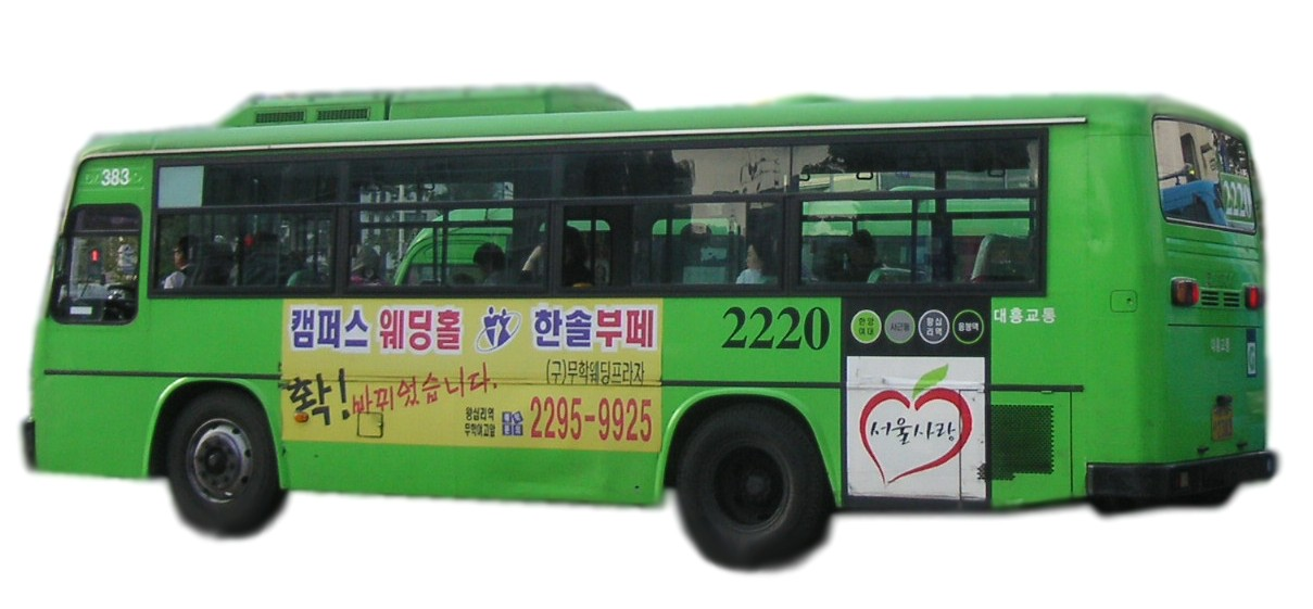 I made this for use in Wikipedia. Bus with background removed. Seoul, South Korea.